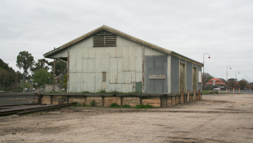 Goods shed at Seymour railway station, Victoria